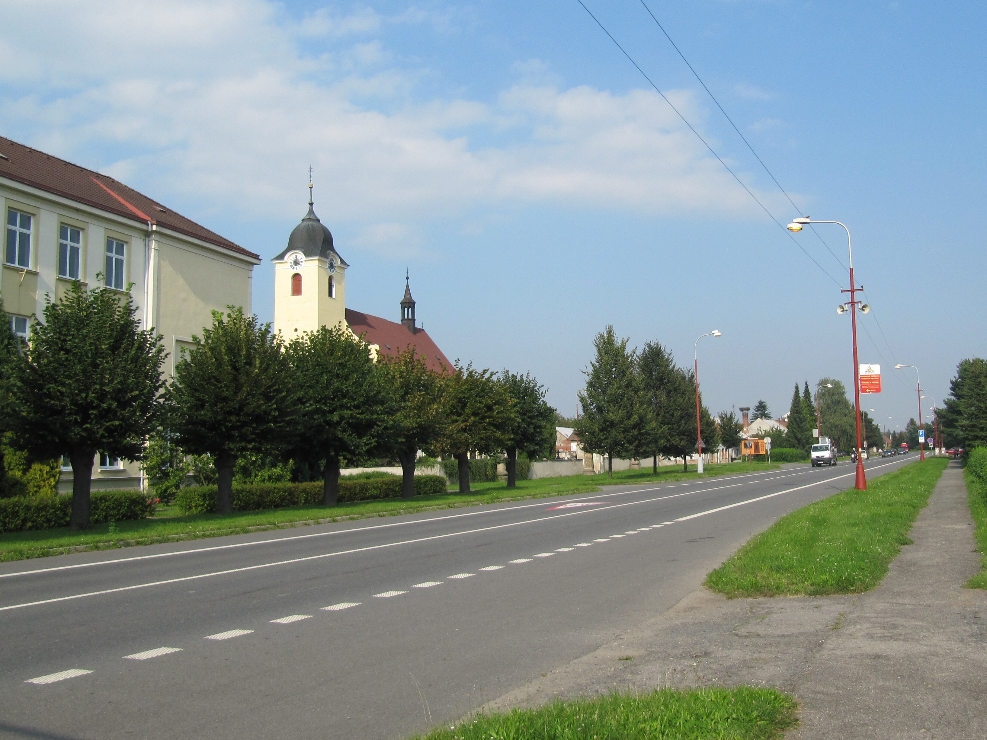 Osek nad Bečvou, Czech Republic, Přerov District. Main street and church of Exaltation of the Holy Cross. This photograph was taken within the scope of the third year of the 'Czech Municipalities Photographs' grant.